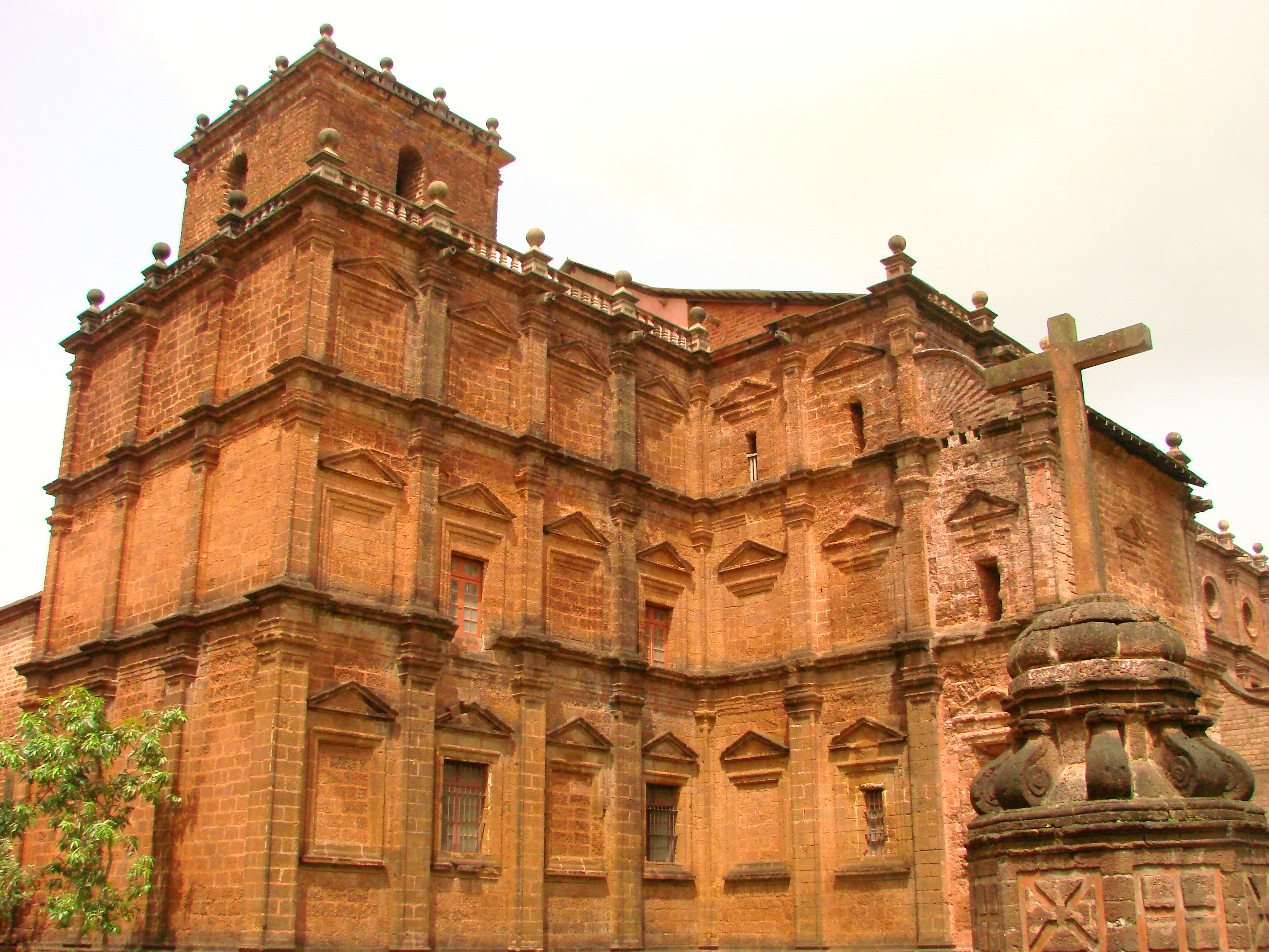 Bom Jesus Basilica, Old Goa, India. July 2008.